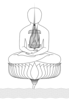 Pindastha dhyaana in Jain meditation